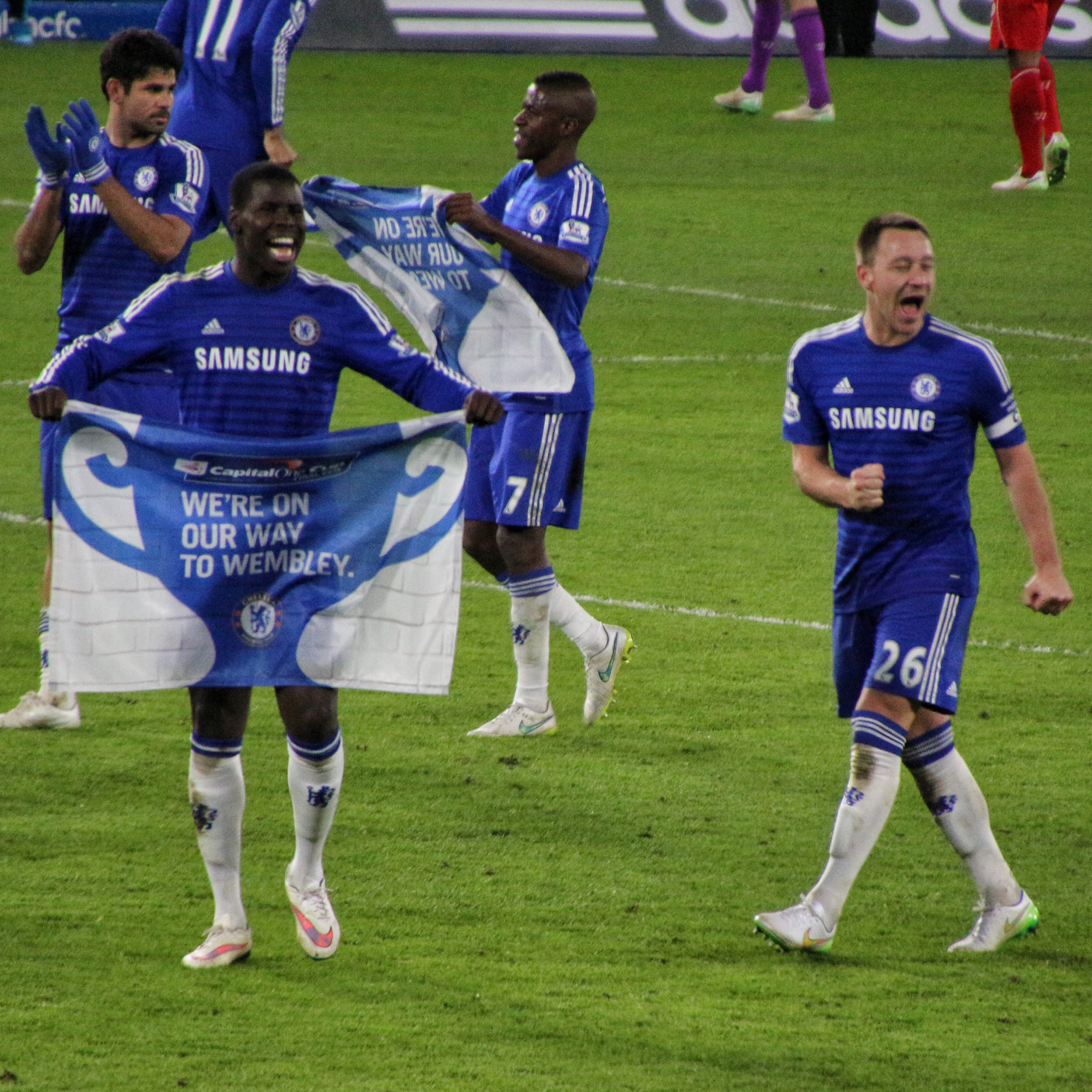 Chelsea 1 lLiverpool 0 (2-1 agg) Capital One Cup semi final 2nd leg On our way to Wembley!